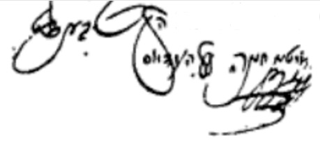 Autograph of Rabbi Goitein (1770-1841), exact date unknown.